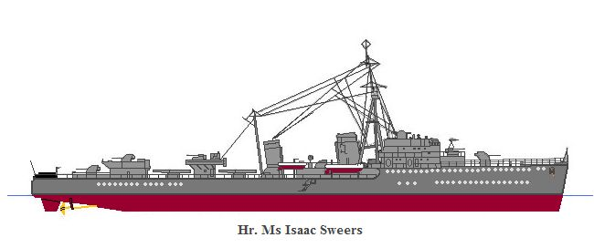 Her Dutch Majesty's destroyer Isaac Sweers